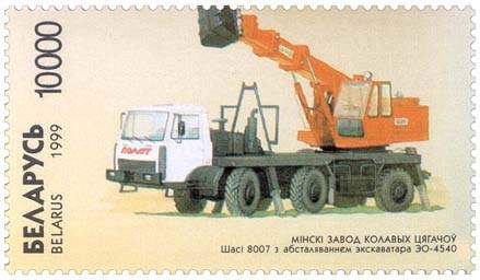 Stamp of Belarus